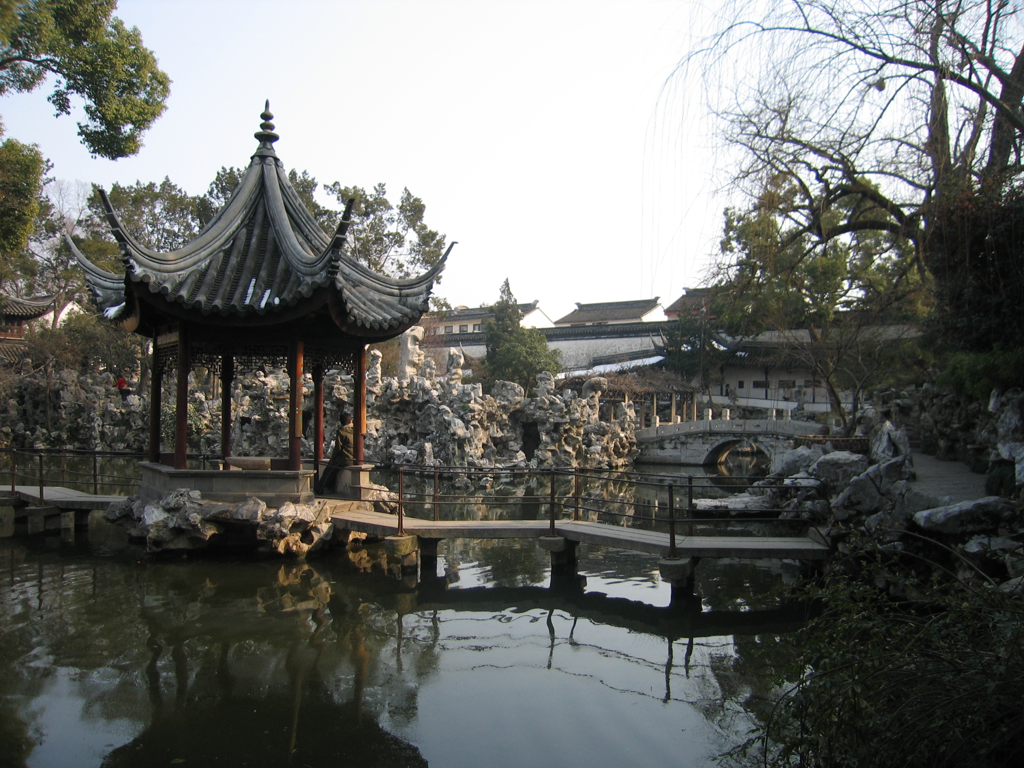 Lion Forest Garden is regarded as on of the top four classical Chinese gardens of Suzhou.